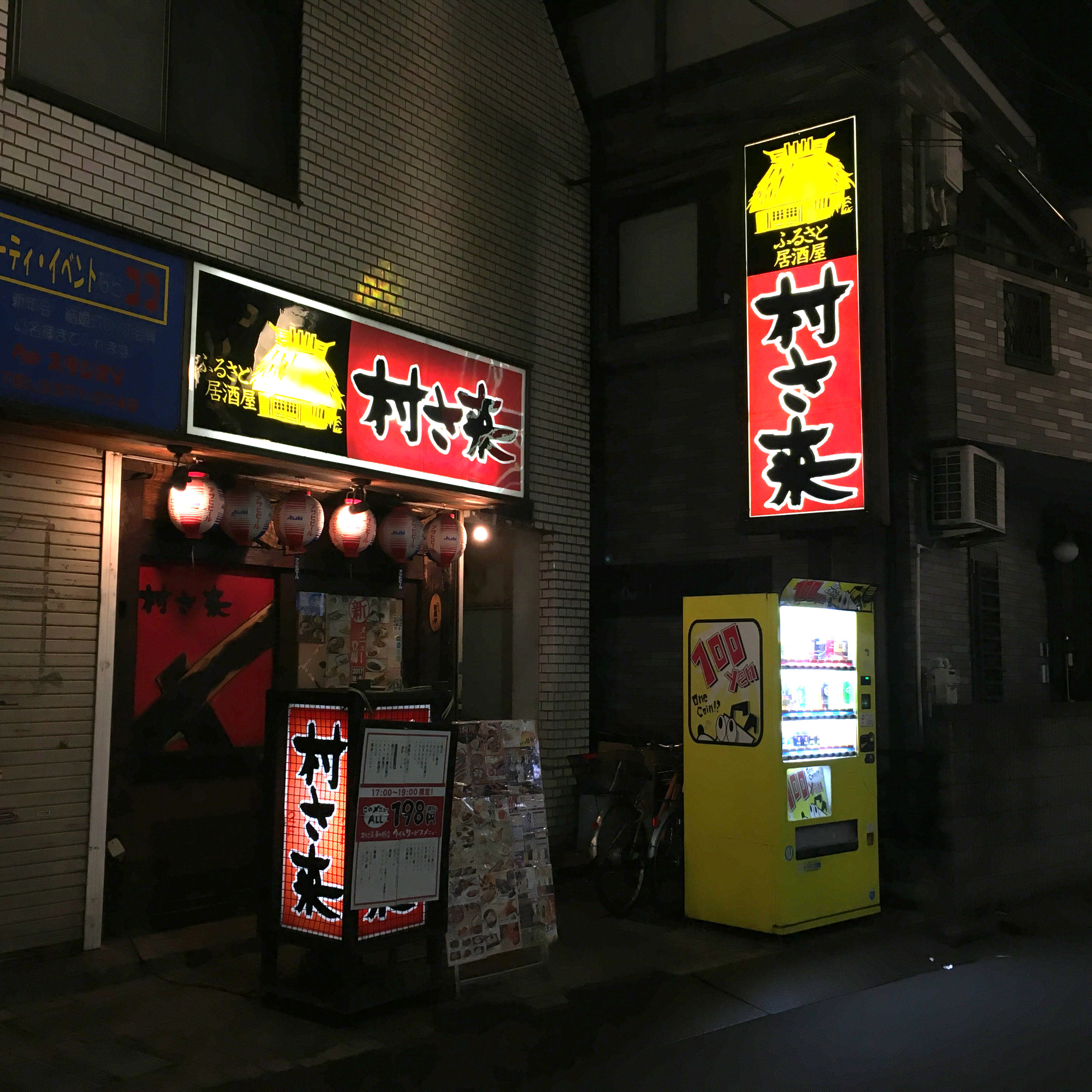 Murasaki (Japanese bar chain) Higashinakano branch (Tokyo, Japan)